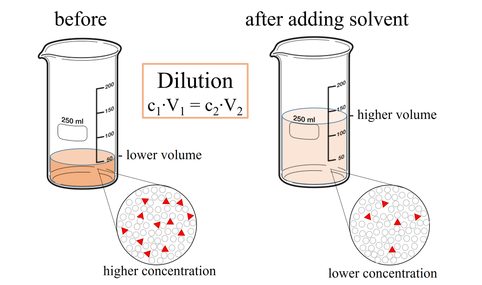 This image shows a solution before and after dilution, i.e. adding solvent. Through the dilution process, the volume increases and the concentrations of the solutes decrease. As a consequence, there is more solution in the beaker after solution, and the color of the solution becomes fainter. The inset shows that at the particular level (picometer to nanometer scale), there are less solute particles (red triangles) per volume. The content in the central box shows the dilution law, i.e. that the product of concentration and volume stays constant upon dilution. The picture of the beakers are from with a CC0 1.0 Universal (CC0 1.0) license.